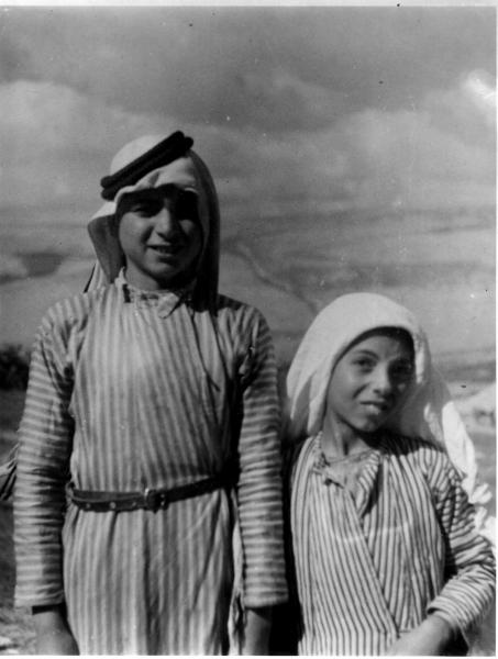 Two of the children of the Arab farmers who lived in Joara. For about half a year in 1937, the Arab farmers who worked for the original owner of Joara, lived together with the Jewish settlers, who came from Hadera. These Arab farmers willingly left to Kufrein village, while the Jewish settlers decided to build Kibbutz Ein Hashofet in a different nearby location. The Palestinians were then forcibly kicked out of Kufrein in 1948